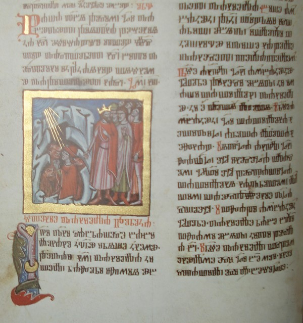 Page from Hrvoje's Missal.